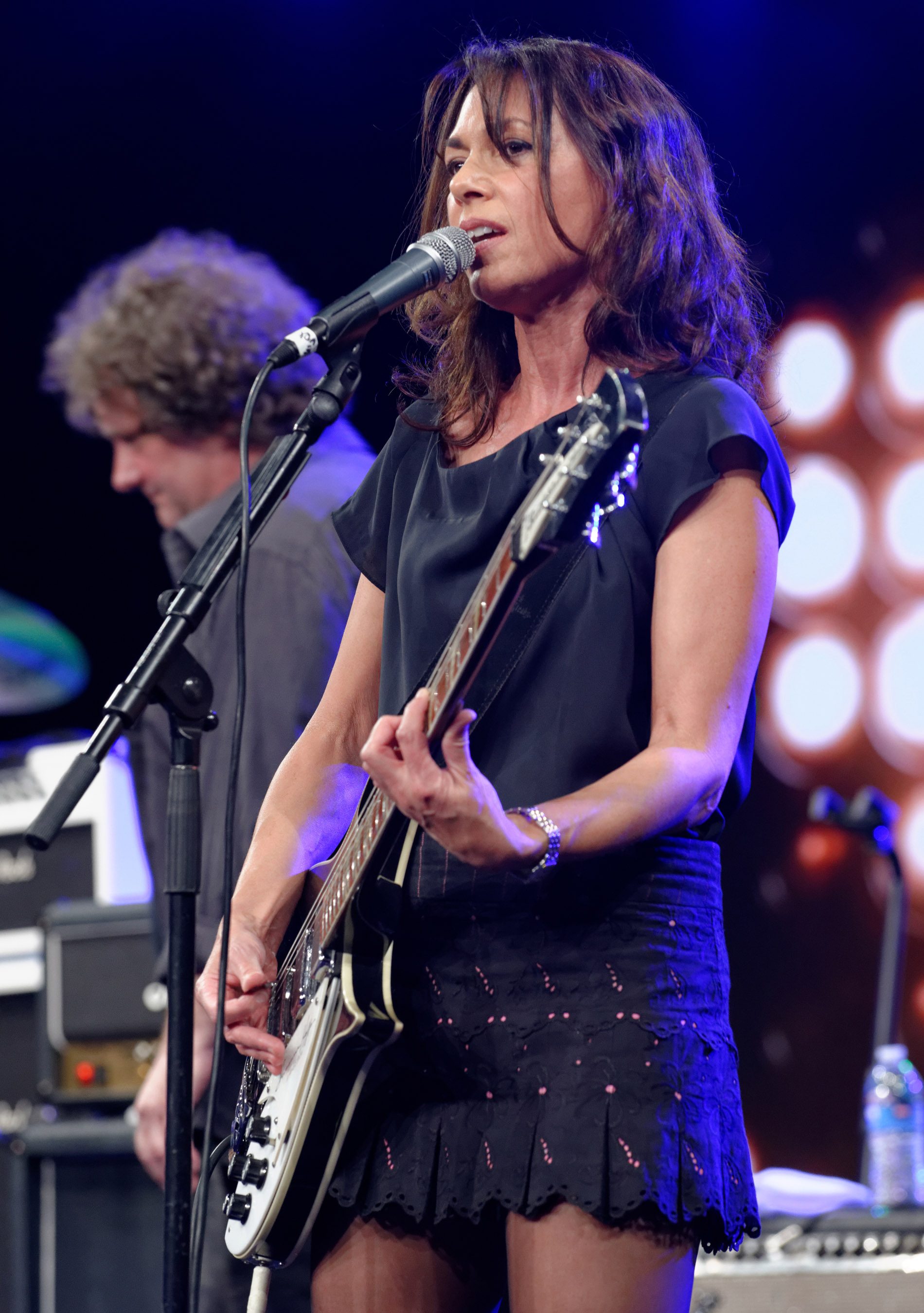 The Bangles performing live at the WiMN "She Rocks" Awards at the Winter NAMM Show in Anaheim California on Friday January 23rd, 2015.